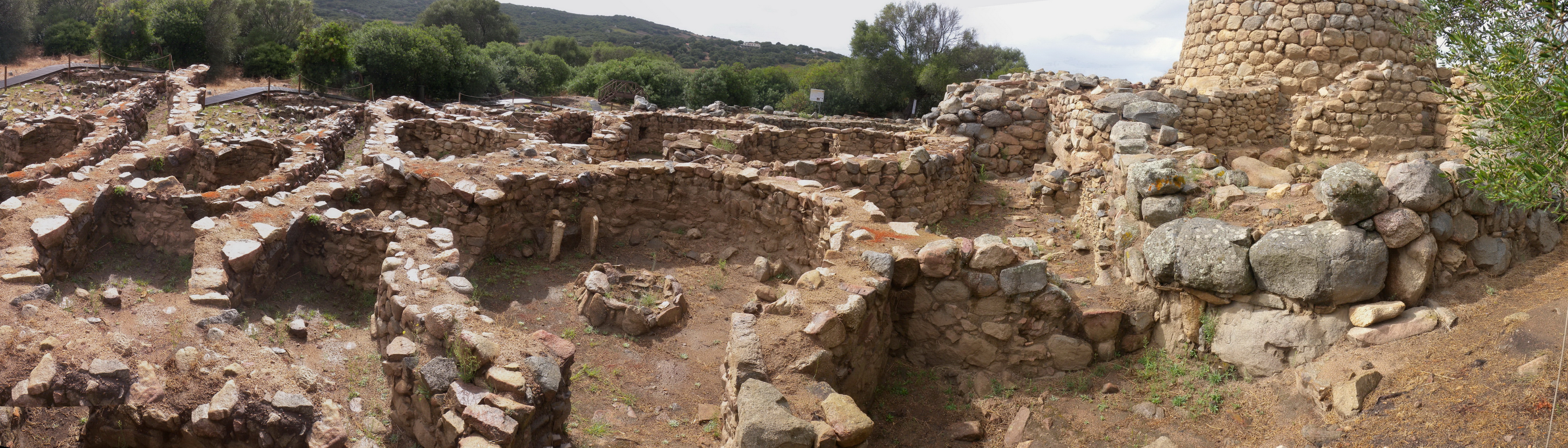 Nuraghe in Arazachena-Prisgiona